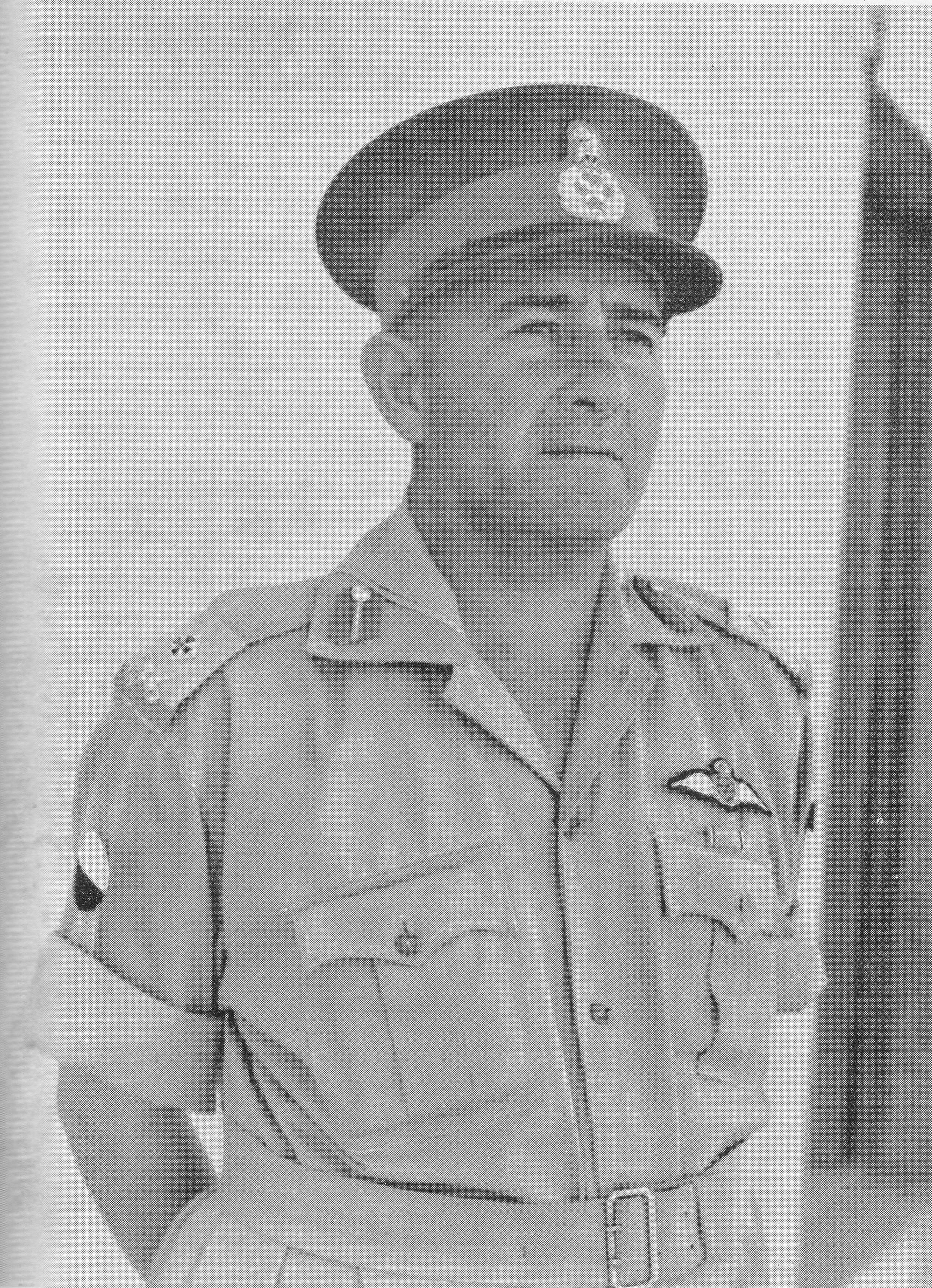 Maj Gen H.B. Klopper, Officer Commanding South African 2nd Infantry Division, June 1942